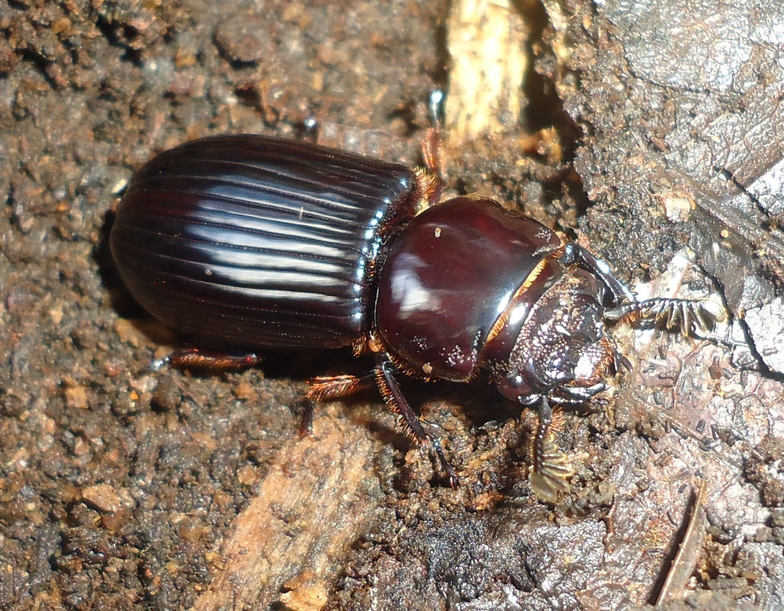 Aceraius laevicollis (Illiger, 1800), quite large (around 1.5 in), Mindanao, Philippines ID based on diagnostic descriptions in: Frederic Henry Gravely (1914) An account of the Oriental Passalidae (Coleoptera) : based primarily on the collection in the Indian Museum, Baptist Mission Press, p. 232-239 Christoph Neumann, Masahiro Kon, & Kunio Araya (2013). "Checklist of Passalidae Leach, 1815 (Coleoptera, Scarabaeoidea) of Laos with a key to their identification and a description of Leptaulax pacholatkoi mutoniatus ssp. nov.". Entomologica Basiliensia et Collectionis Frey 34: 207-235. Masahiro Kon, Koji Mizota, & Kunio Araya (2005). "Passalidae (Coleoptera) recorded from the Crocker Range, Sabah, Malaysia". Journal of Tropical Biology and Conservation 1 (31): 31-46. Kazuo Iwase (1998). "Some new Passalid Beetles (Coleoptera, Passalidae) from Southeast Asia". Elytra, Tokyo 26 (1): 131-139. Basis for ID: Distribution range (Philippines) Size (~40mm) Antennae with six long lamellae Upper and lower teeth of left mandible large, dentition not clear on right mandible, probably incomplete. Labrum concave, slightly asymmetrical, with left anterior edge further forward than right Head asymmetrical, left outer tubercle larger than right Supraorbital and supraoccipital ridges form open semicircle, Pronotum with indistinct median groove Pronotum with crescent-shaped scars on sides, more dense on front edge, finely punctured Pronotum anterior angle protrudes forward "Shoulders" of elytra hairy